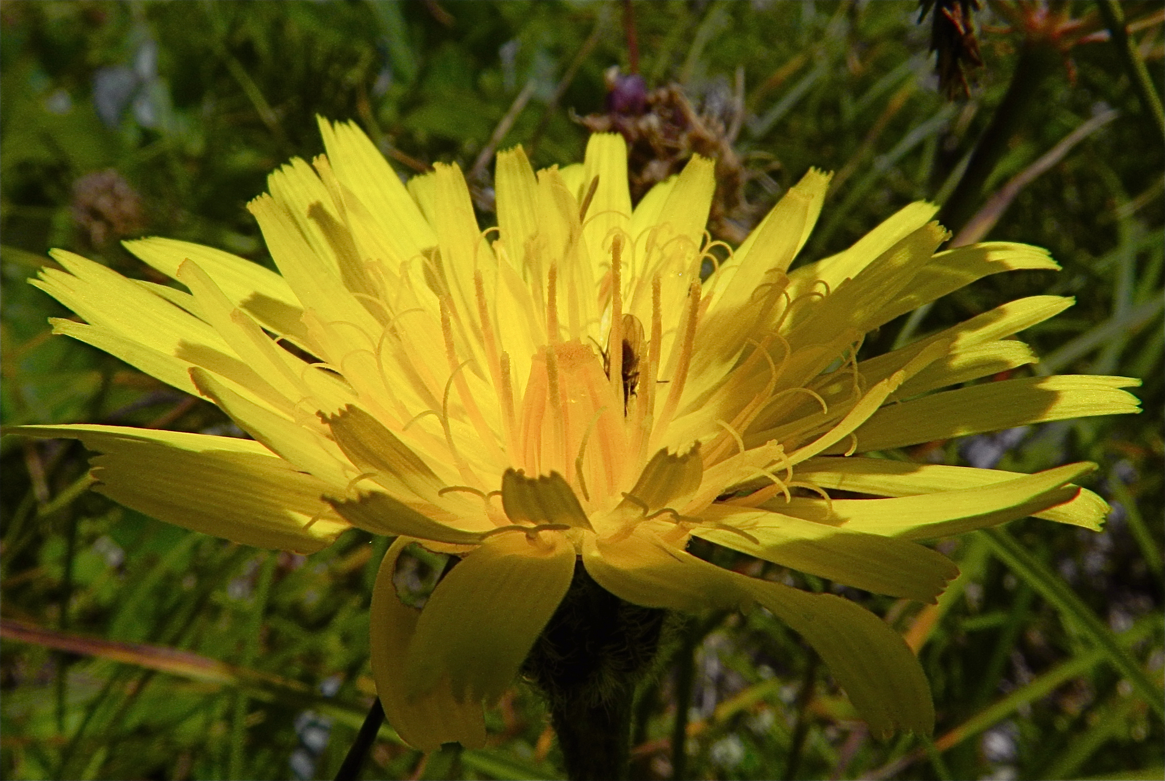 Crepis runcinata, dandelion hawksbeard